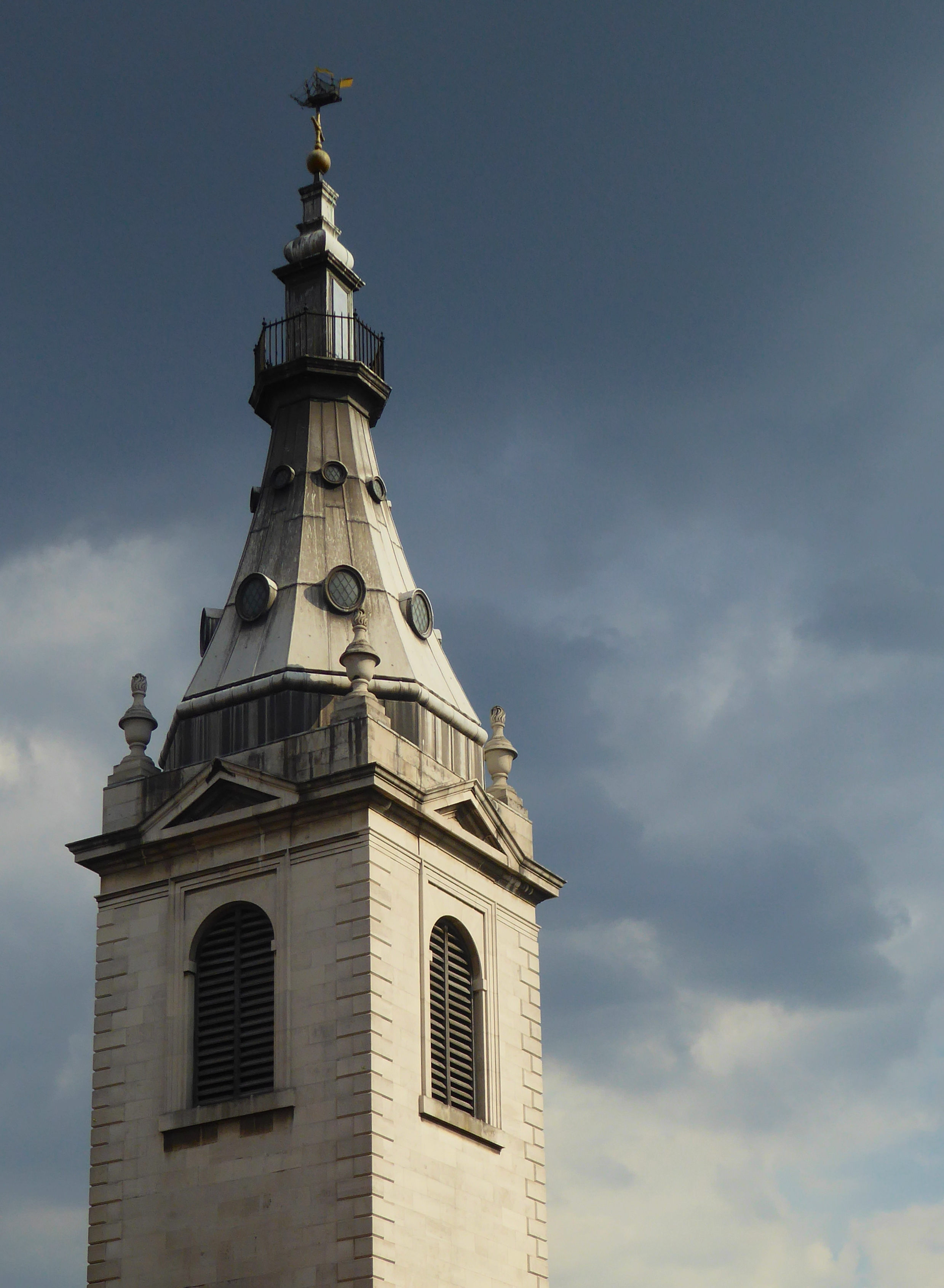 The spire of the St Nicholas Cole Abbey, as seen from the northwest of the building.